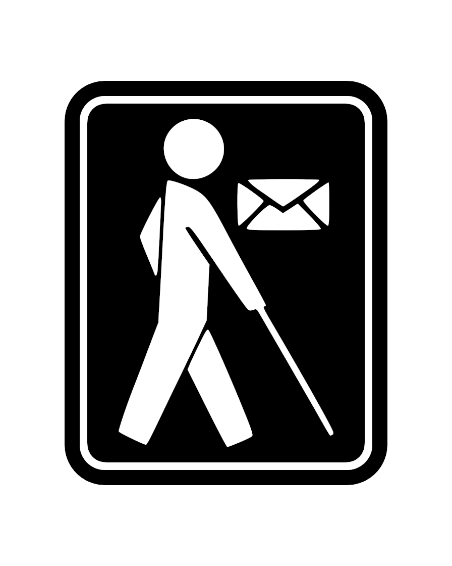 Cecogram label designed according to the instructions stipulated in the Convention Manual of the International Bureau of the Universal Postal Union (Berne, 2018, vol II, art 17-107.5.4, p 146). Should measure 52 by 65 millimetres when printed. White on black with white margin.